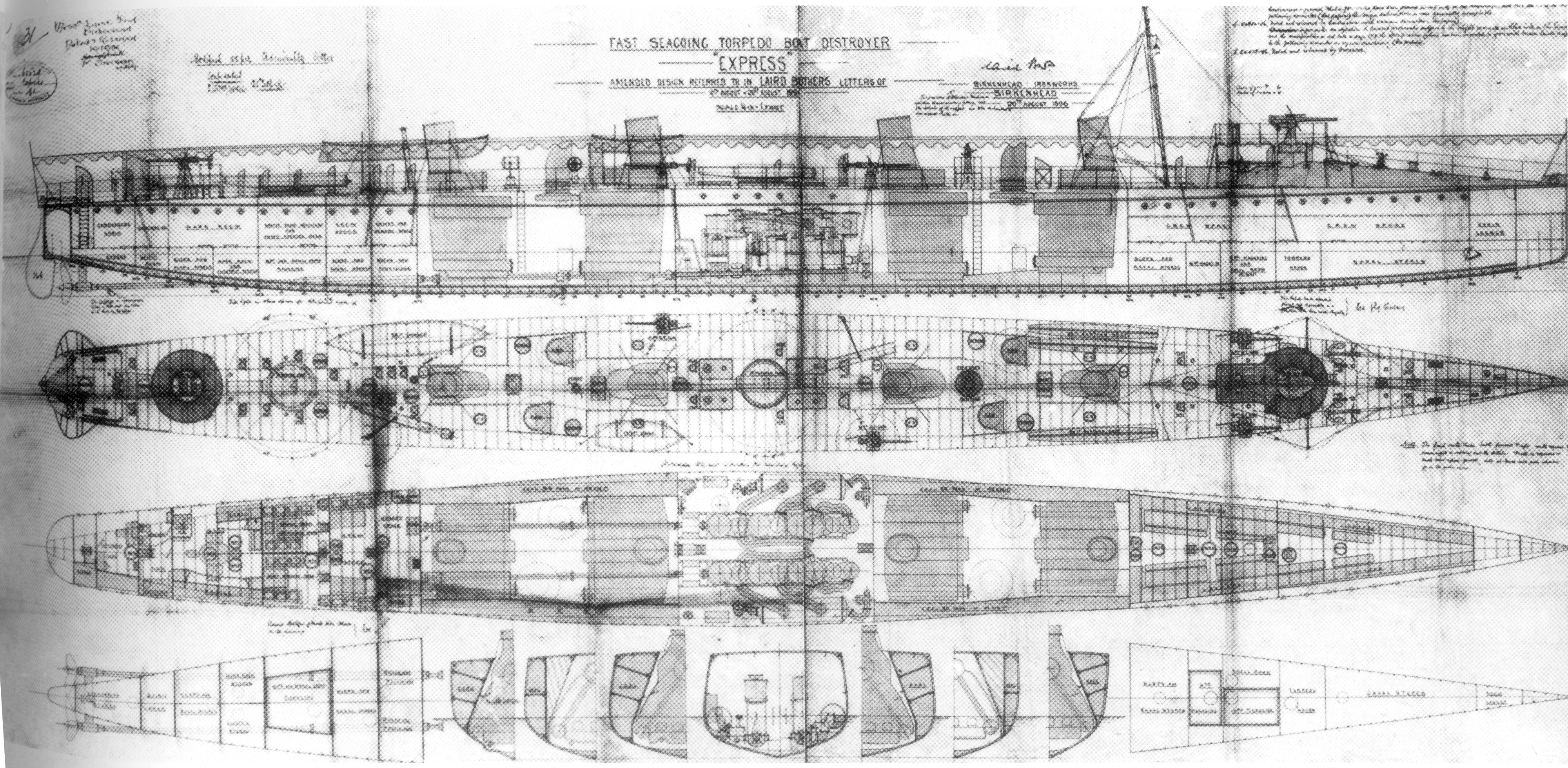 Builder's plans for torpedo-boat destroyer HMS Express from Laird shipbuilders, 1896.